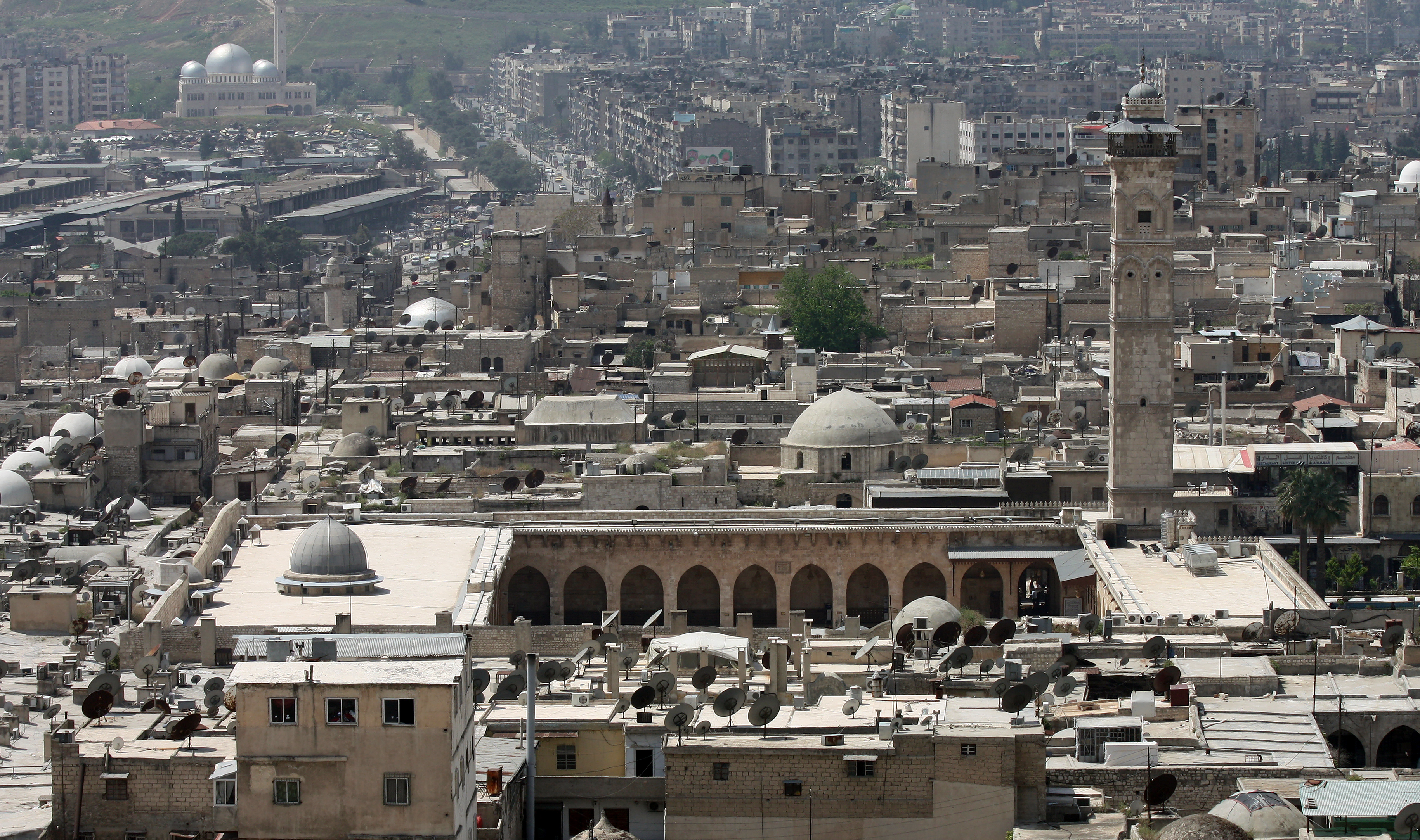 The Great Mosque of Aleppo.